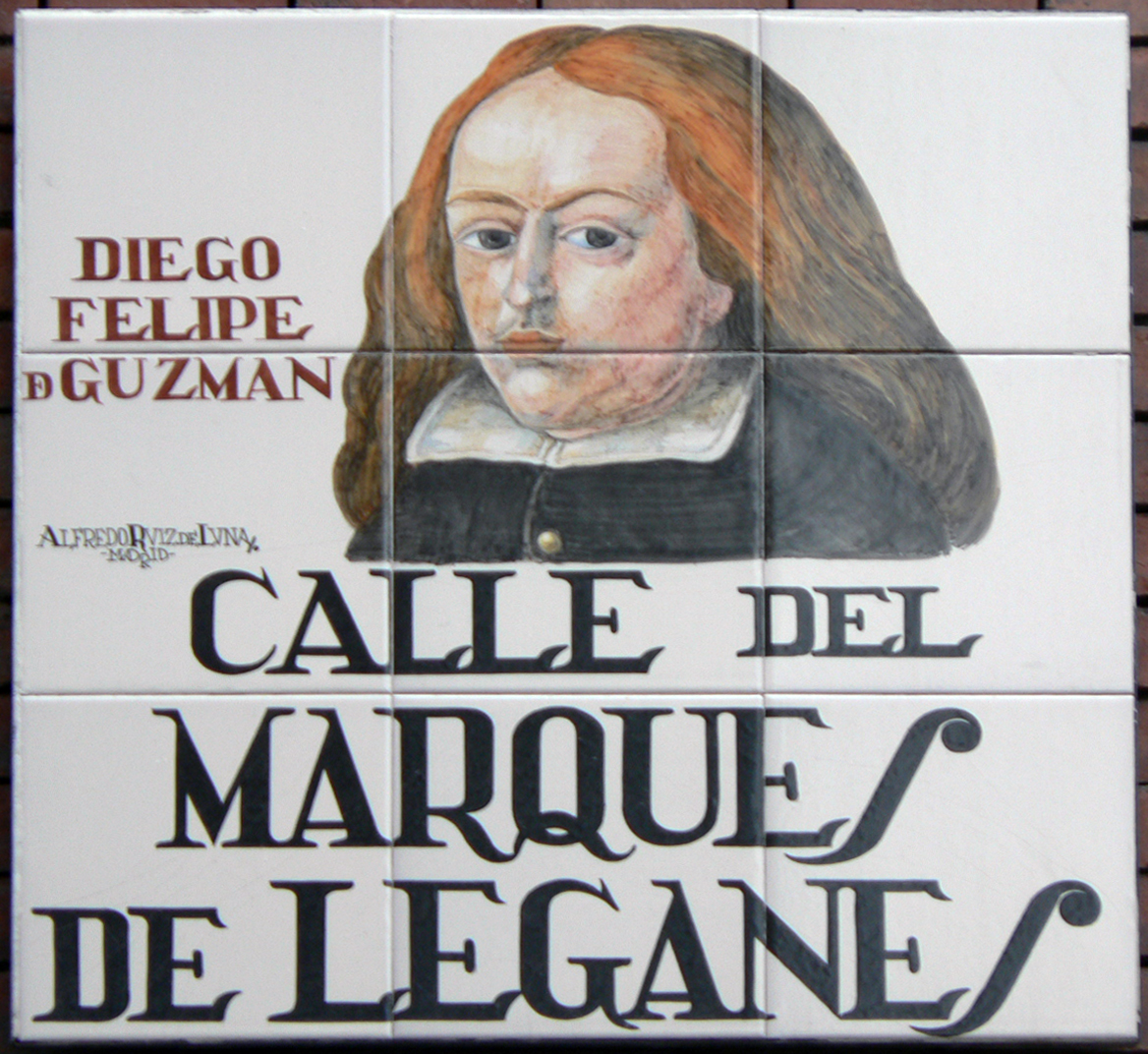 Sign of Calle del Marqués de Leganés (street, Centro district) in Madrid (Spain).